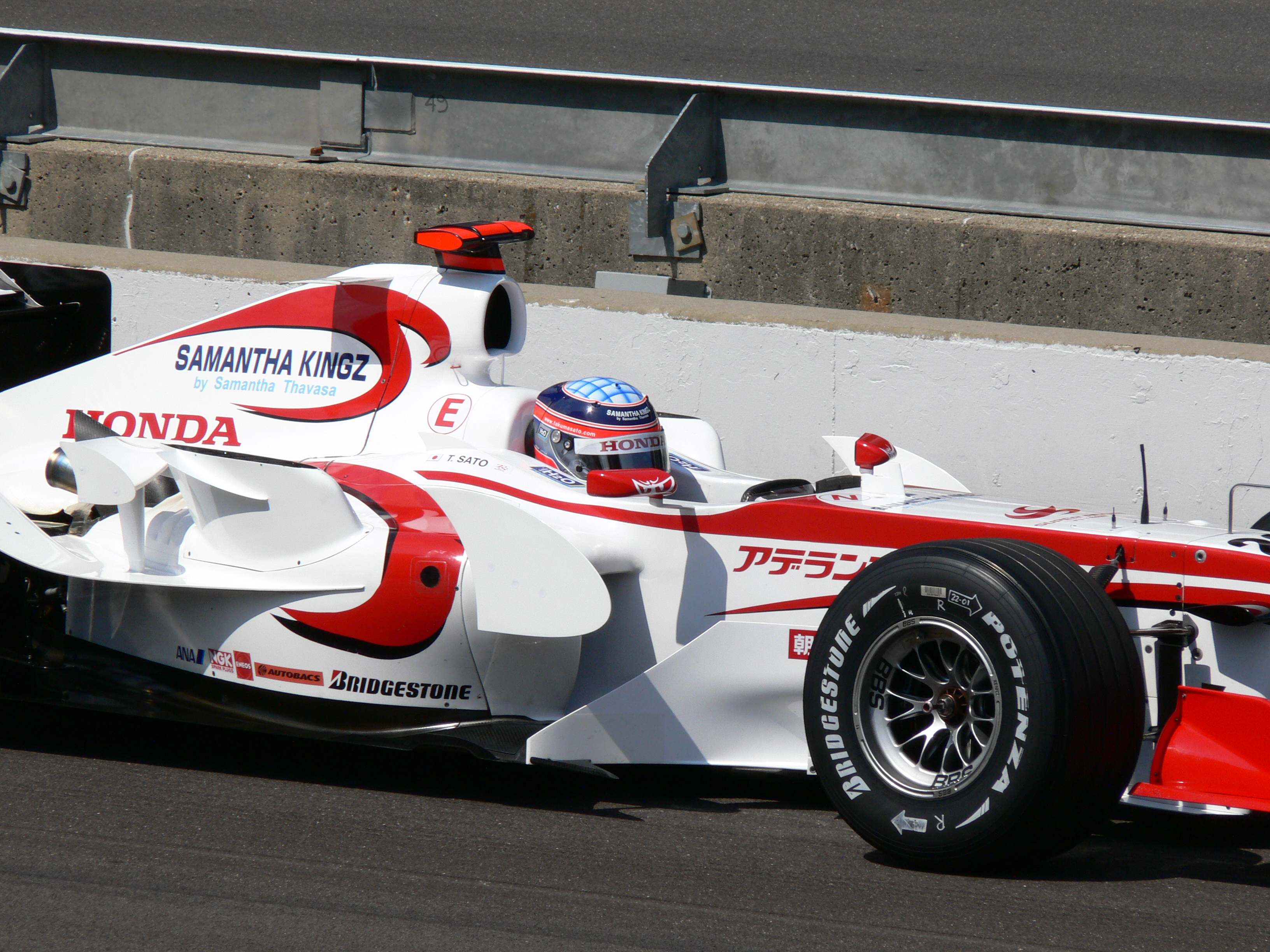 Takuma Sato during free practice, 2006 US Grand Prix